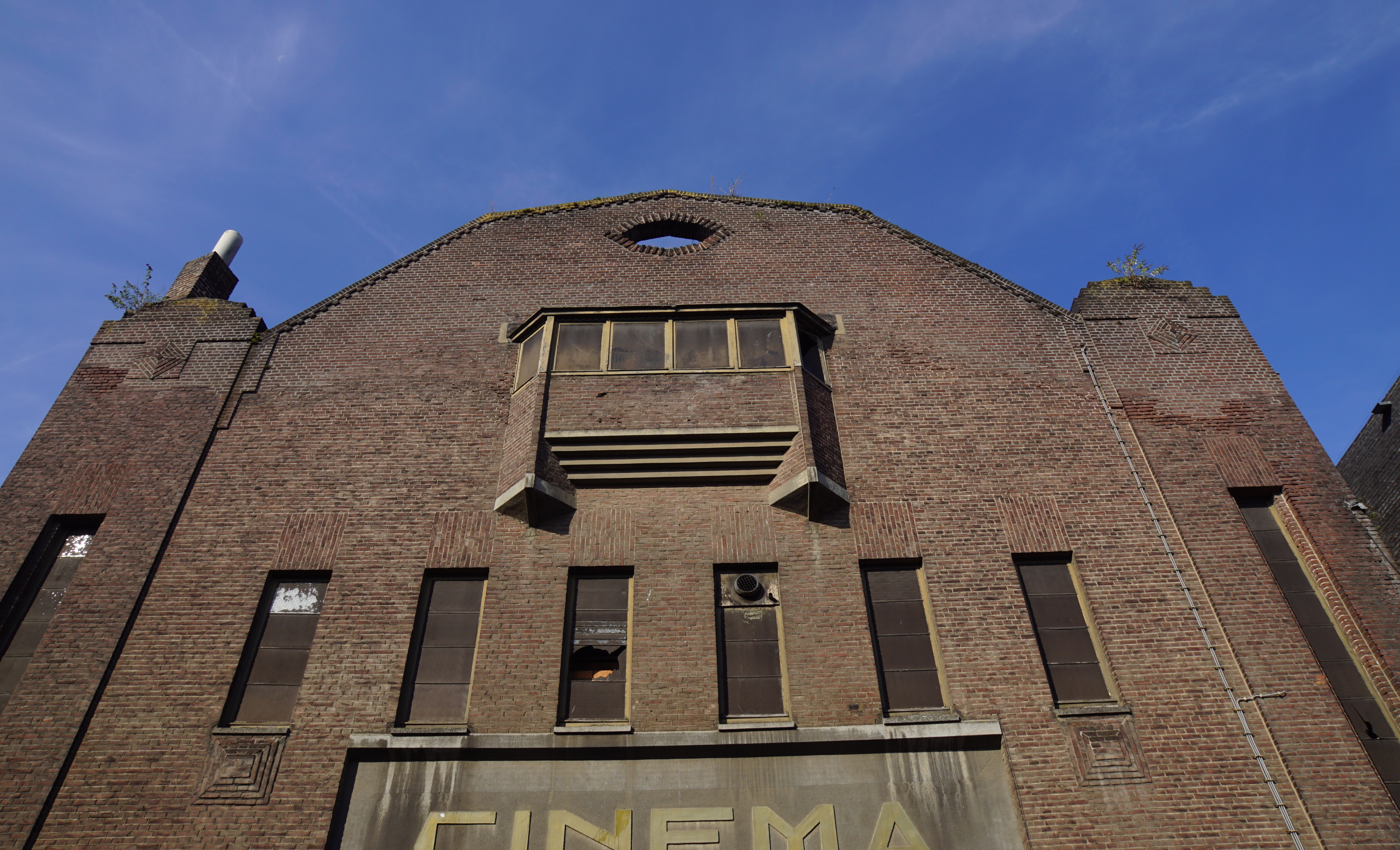 Former Cinema Palace, Lage Barakken 12, Maastricht, The Netherlands. Detail.